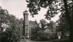 Reifensteiner Schule Selikum Wirtschaftliche Frauenschule, später Landfrauenschule Selikum auf Schloß Reuschenberg bei Neuß am Rhein 1917 - bestand bis in die 1980er Jahre Besitzerin ist die Gesellschaft für landwirtschaftliche Frauenbildung GmbH in Nordborchen bei Paderborn. Dem Reifensteiner Verband ab 1917 angeschlossen. Ab 1969 Lehranstalt für land- und hauswirtschaftliche Frauenbildung, ab 1980 Berufsfachschule für ländliche Hauswirtschaft, Fachschule für Ernährungs- und Hauswirtschaft.